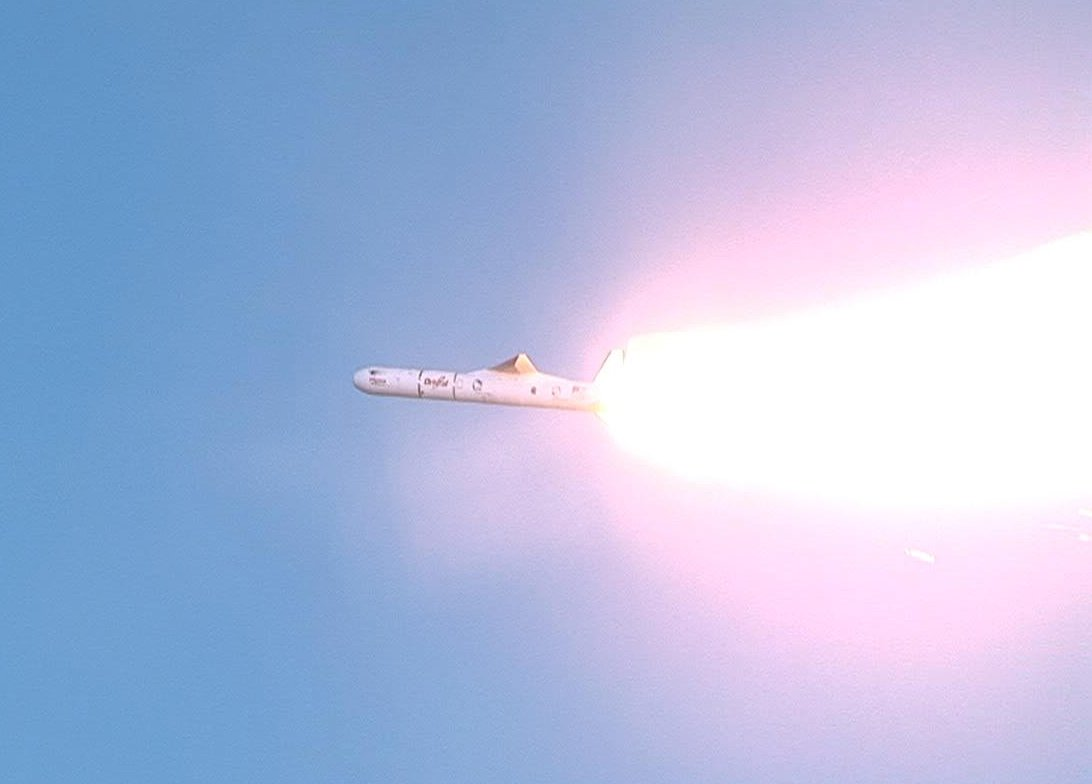 Orbital Sciences' Pegasus launch vehicle rockets away from the L-1011 jet aircraft after being released. Pegasus carries the Space Technology 5 spacecraft with its trio of micro-satellites that will be launched in a "string of pearls" sequence on a near-Earth polar elliptical orbit that will take them from approximately 190 miles (300 kilometers) to 2,800 miles (4,500 kilometers) from the planet. The three spacecraft will conduct science validation using measurements of the Earth's magnetic field collected by the miniature boom-mounted magnetometers on each.